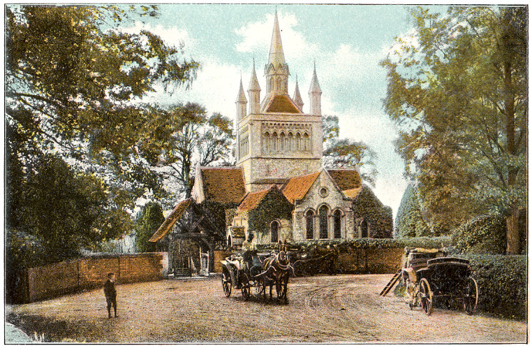 St Mildred's Church, Whippingham WHIPPINGHAM CHURCH.—About a mile south of Osborne is Whippingham Church, a cruciform structure from designs furnished by the late Prince Consort. Before a private Chapel was added at Osborne the Royal Family often attended. The aisles which contain seats for the Royal Household are divided from the Chancel by ornamented arcades. The north aisle is converted into a Mortuary Chapel in memory of Prince Henry of Battenberg. Mural tablets to Princess Alice, the Duke of Albany, and a medallion bust to the Prince Consort have been erected by Her late Majesty; also a medallion to Sir Henry Ponsonby, whose tomb is in the Churchyard. From the back of the Church there is a fine view of the river Medina, looking towards Newport, the capital of the Island.